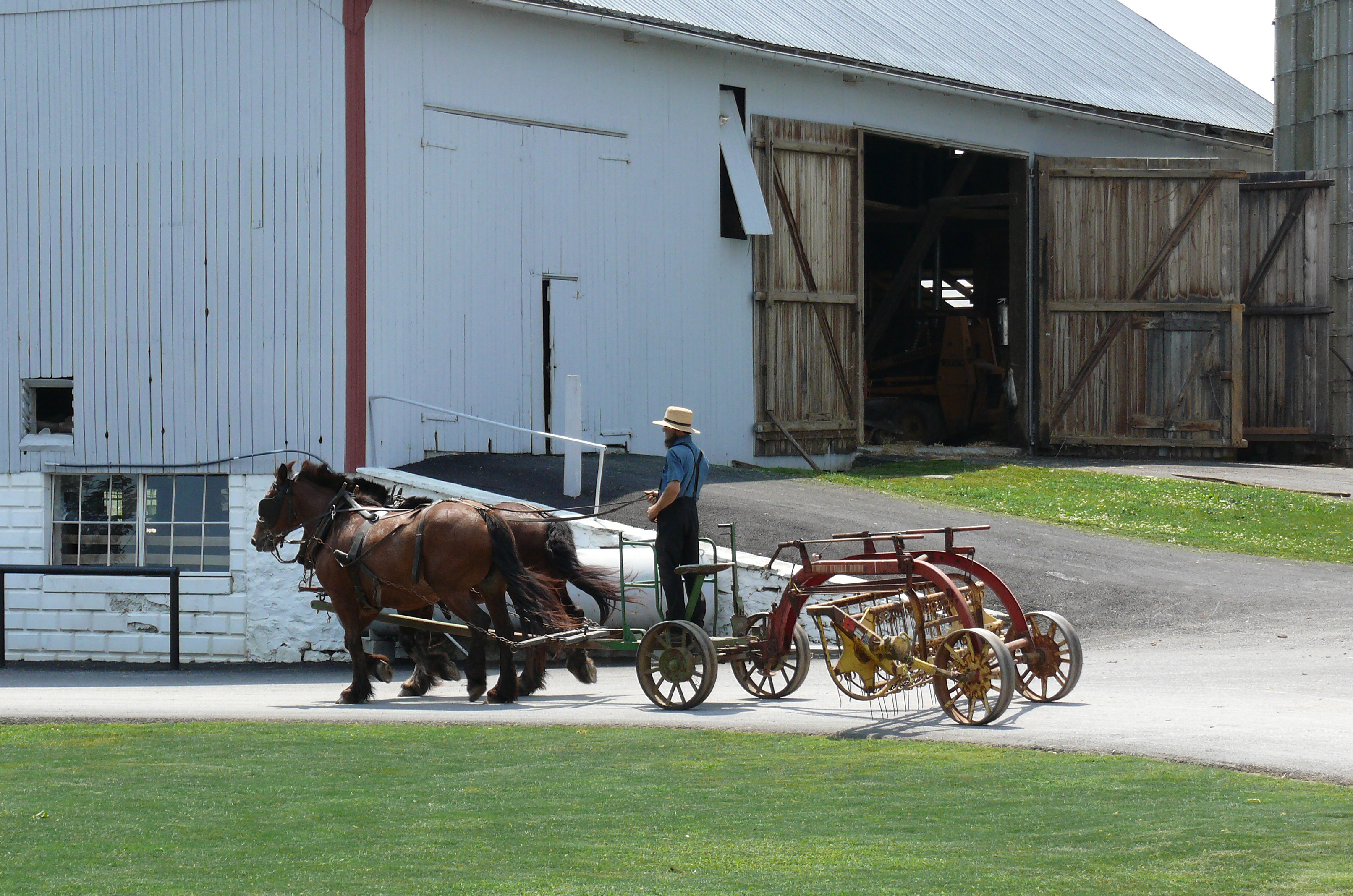 Amish farmer with a horse-drawn Amish side delivery rake (a New Holland model presumably)